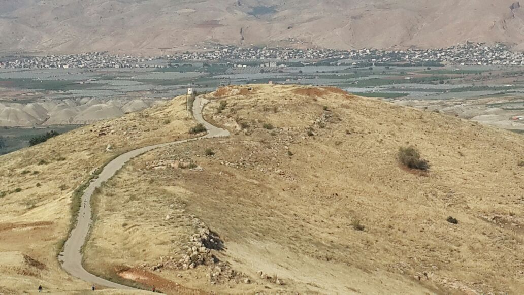 Geography of Israel